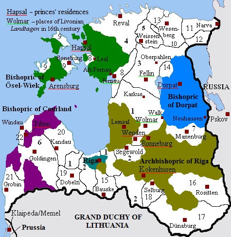 Old Livonia in 1534. Numbers are for provinces of Livonian Order (white): under direct rule of Livonian Master domain of field marshal commandry (Komturei) of Viljandi (Fellin) commandry of Tallinn (Reval) advocacy (Vogtei) of Järva (Jerwen) commandry of Kuldiga (Goldingen) commandry of Aluksne (Marienburg) commandry of Pärnu (Pernau) advocacy of Maasilinna (Soneburg) commandry of Rakvere/Wesenberg advocacy of Narva advocacy of Vasknarva (Neuschloss) advocacy of Toolse (Tolsburg) commandry of Kursi (Talkhof) advocacy of Bauska (Bauske) advocacy of Rezekne (Rositten) commandry of Daugavpils (Dünaburg) advocacy of Selpils (Selburg) advocacy of Dobele (Dobeln) advocacy of Kandava (Kandau) advocacy of Grobina (Grobin) commandry of Ventspils (Windau)